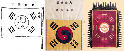 Old designs of Korean flags. These are old versions of the flag of Korea. Some details may reflect Chinese ideas of what the early Korean flag was, rather than authentic Korean ideas of what the early Korean flag was.